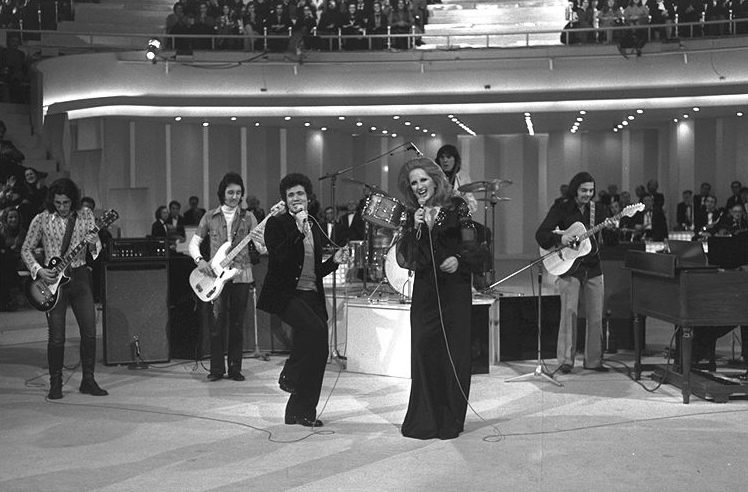 The Italian singers Lucio Battisti (1943-98) and Mina (1940-) on stage during the RAI TV show Teatro 10 in which they performed together. It was the last ever performance of Lucio Battisti on Italian television.